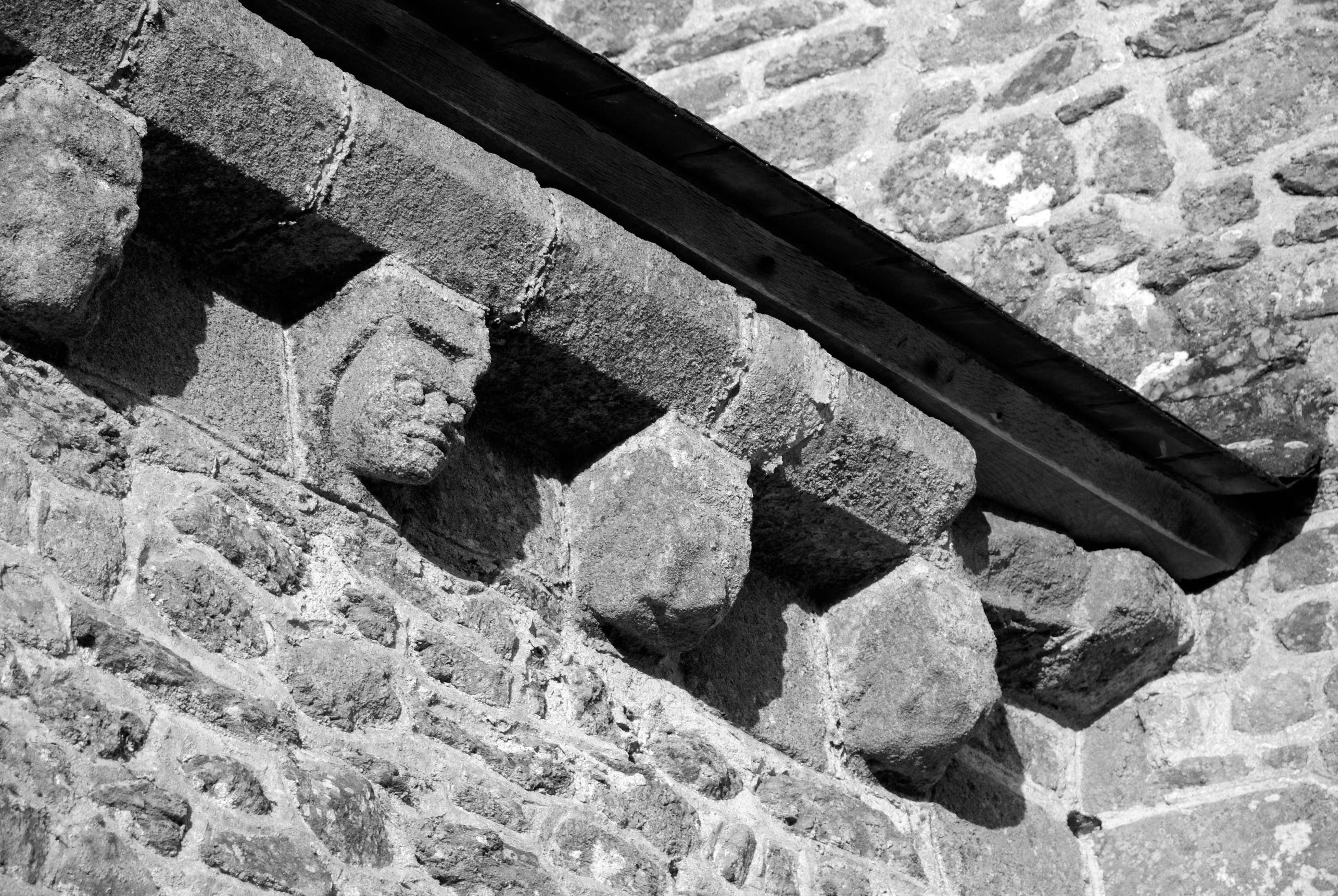 Saint-Gildas-de-Rhuys: corbels of the abbey-church (Morbihan, France)